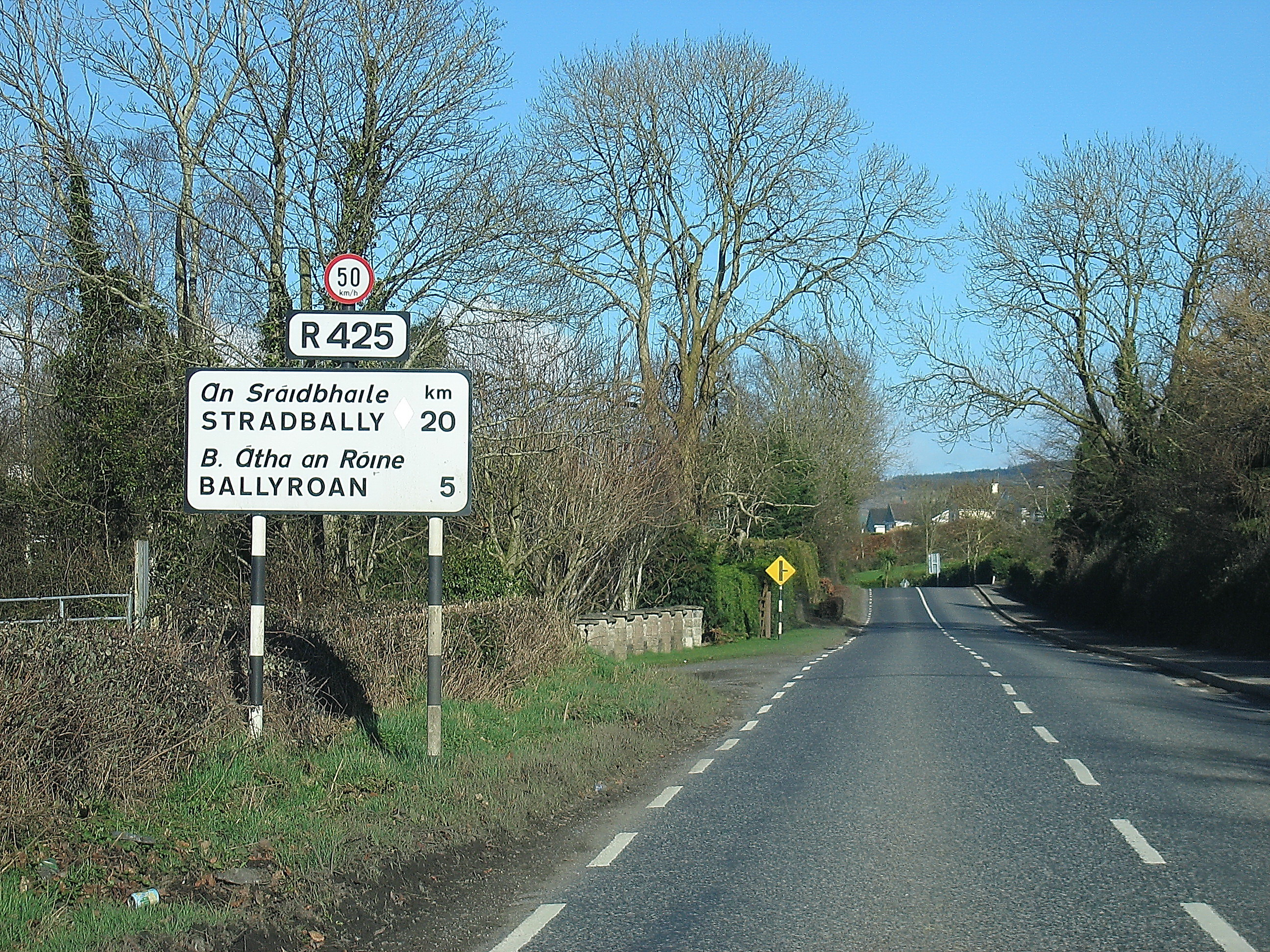 The R425 road near Abbeyleix, County Laois, Ireland